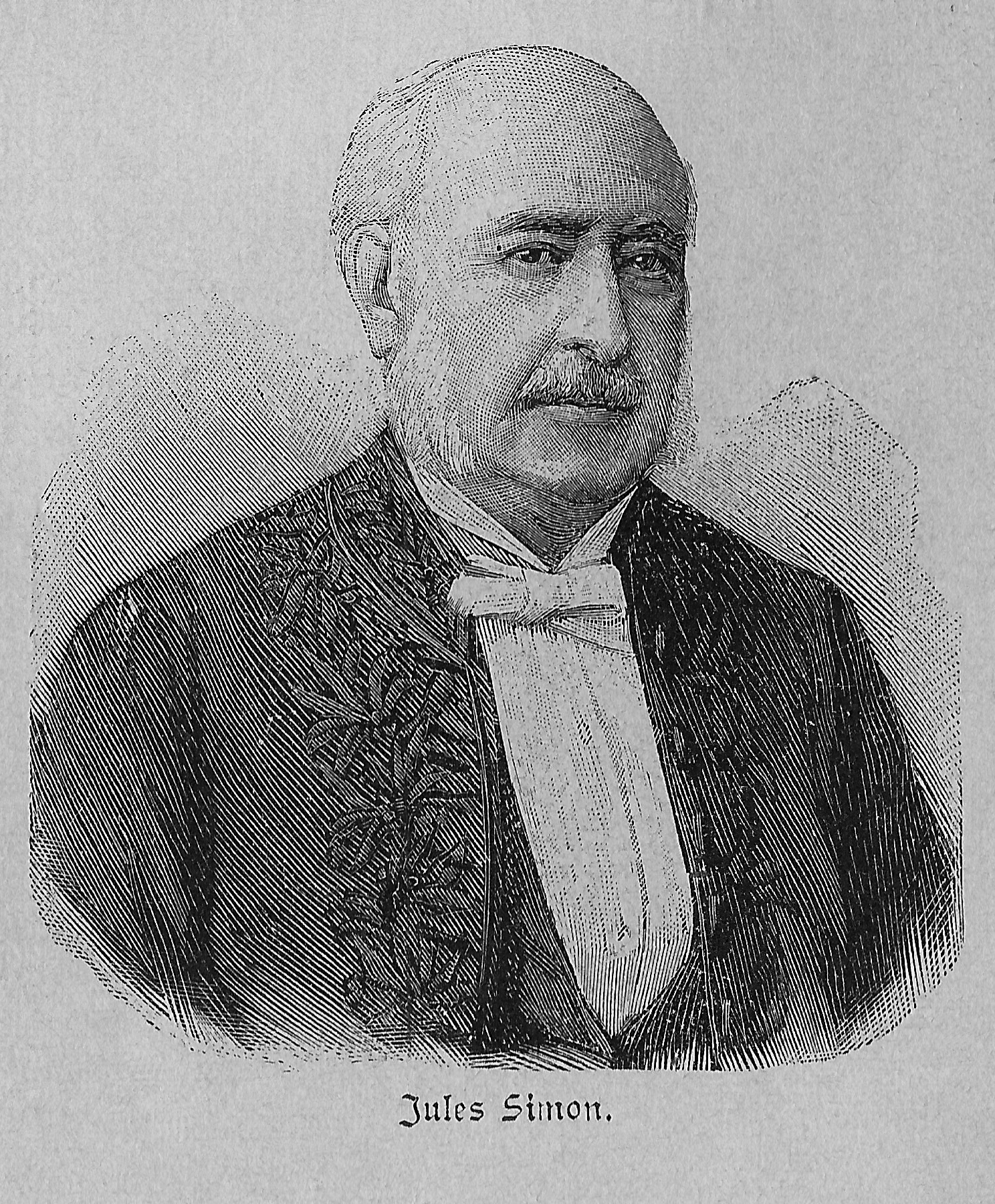 Jules Simon